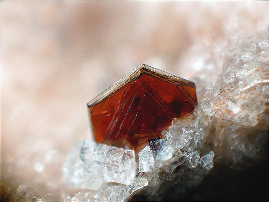 Biotite (0.75 x 1 mm) in combination with Sanidine and Nepheline - Locality: Wannenköpfe, Ochtendung, Eifel region, Germany